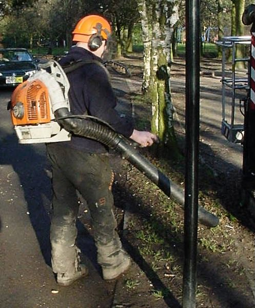 A backpack leaf blower